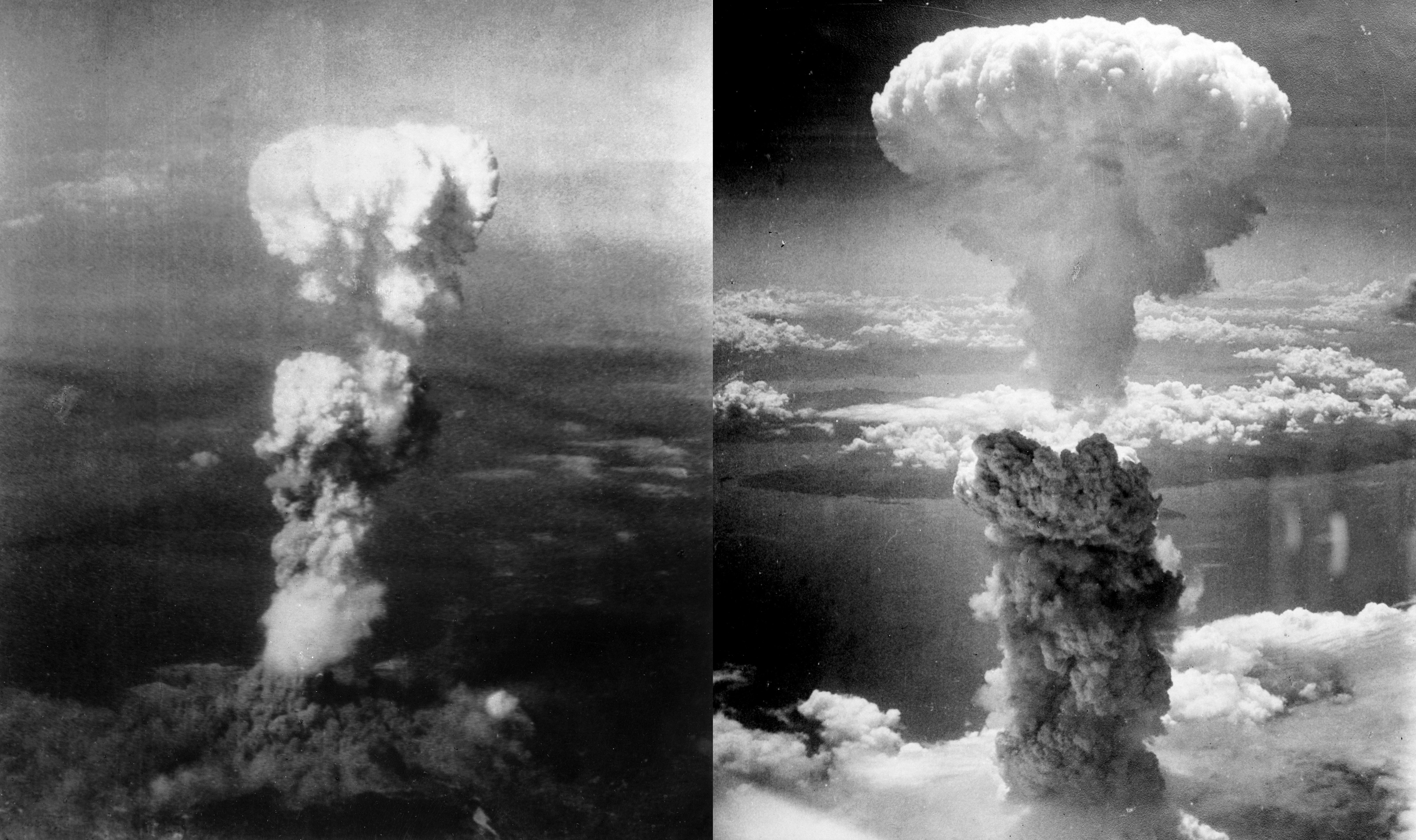 Left picture : At the time this photo was made, smoke billowed 20,000 feet above Hiroshima while smoke from the burst of the first atomic bomb had spread over 10,000 feet on the target at the base of the rising column. Six planes of the 509th Composite Group participated in this mission: one to carry the bomb (Enola Gay), one to take scientific measurements of the blast (The Great Artiste), the third to take photographs (Necessary Evil), while the others flew approximately an hour ahead to act as weather scouts (08/06/1945). Bad weather would disqualify a target as the scientists insisted on a visual delivery. The primary target was Hiroshima, the secondary was Kokura, and the tertiary was Nagasaki.Right picture : Atomic bombing of Nagasaki on August 9, 1945, taken by Charles Levy.